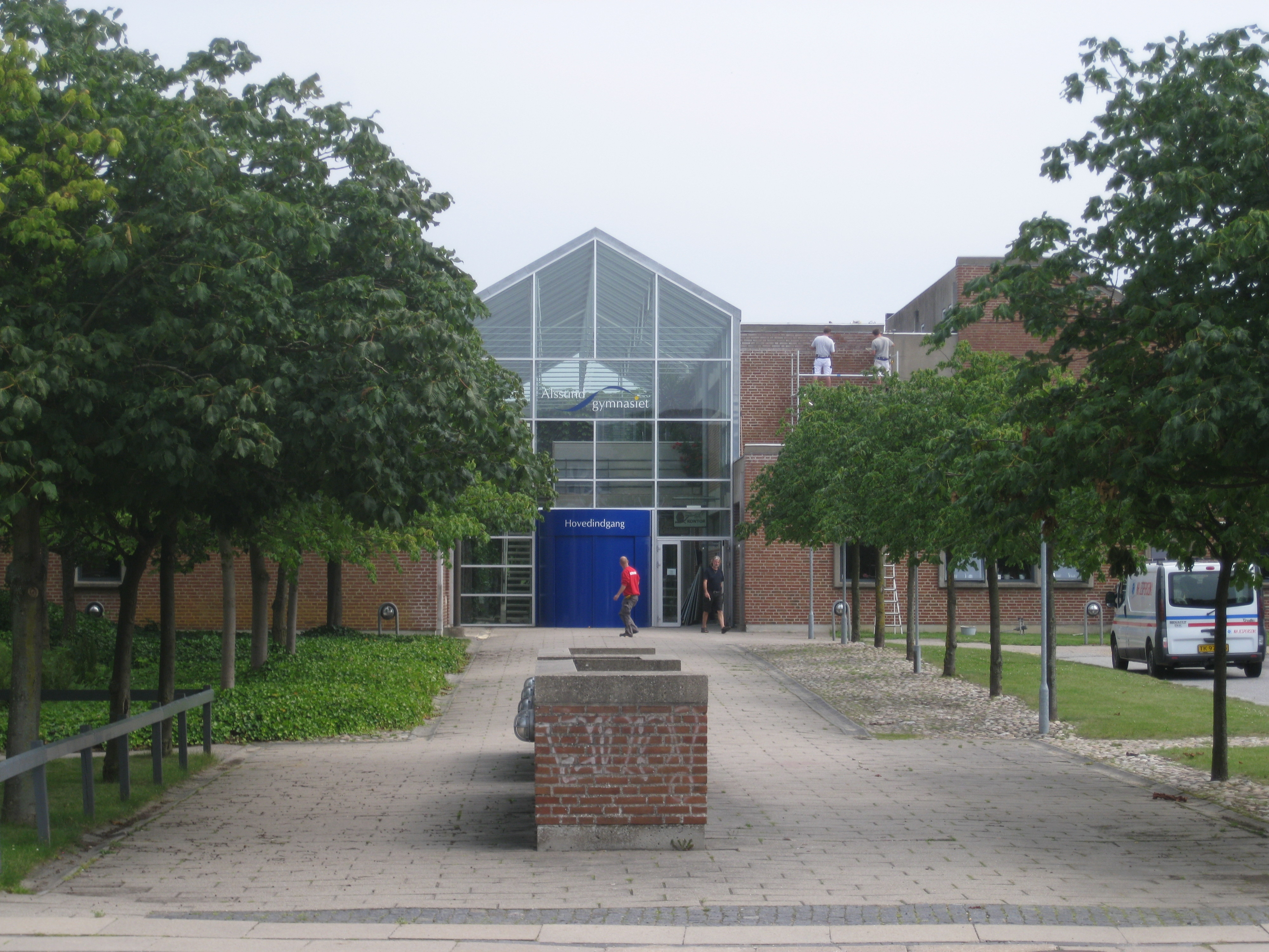 Alssundgymnasiet, Sønderborg, Denmark